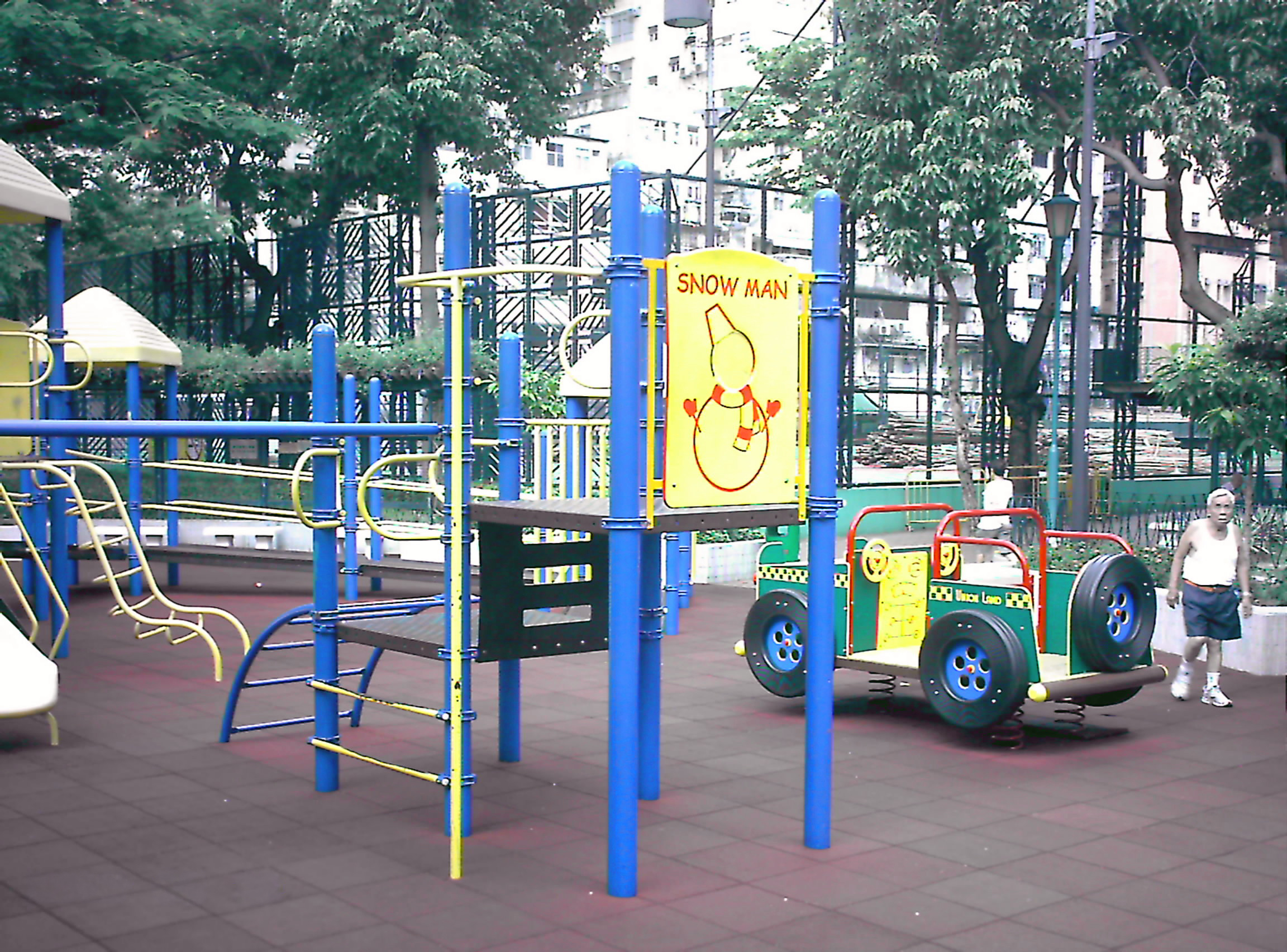 Children Amusement Park at King George V Memorial Park, Kowloon, Hong Kong 中文（香港）: 香港，九龍佐治五世紀念公園裡的兒童遊樂場。